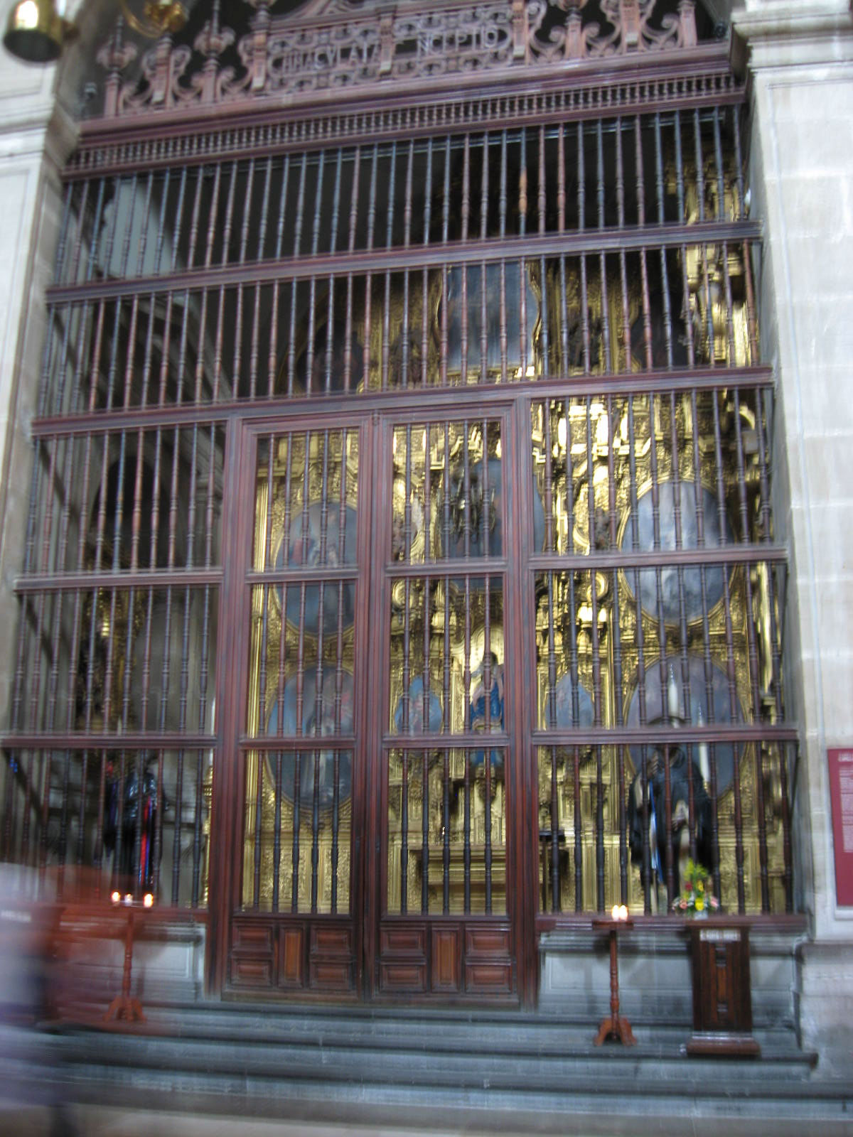 Chapel of the Immaculate Conception in the Mexico City Cathedral